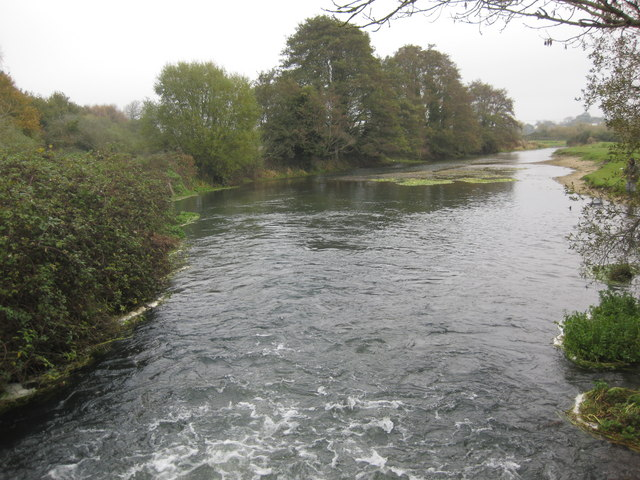 Wareham - Worgret Heath River Piddle or Trent